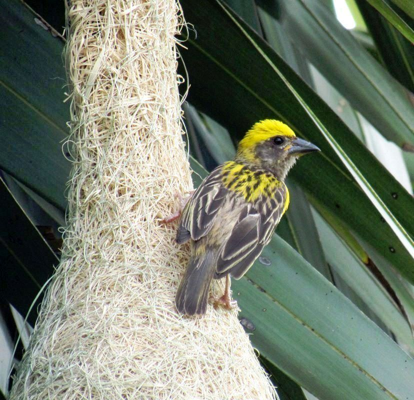 Baya Weaver near Gobichettipalayam